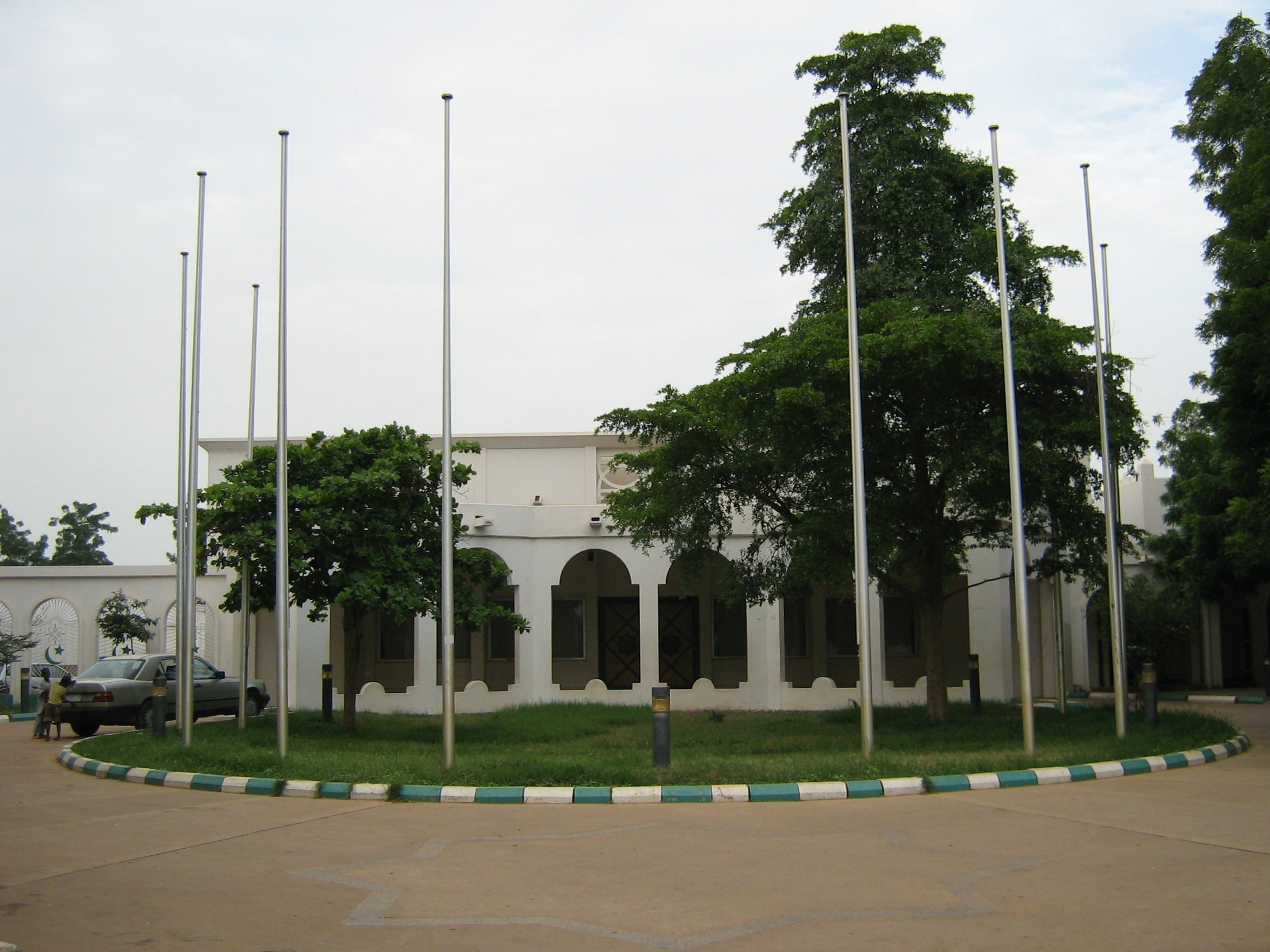 The entrance to the Sultan's palace, Sokoto, Nigeria Photo taken in August 2006 by Jens Buurgaard Nielsen